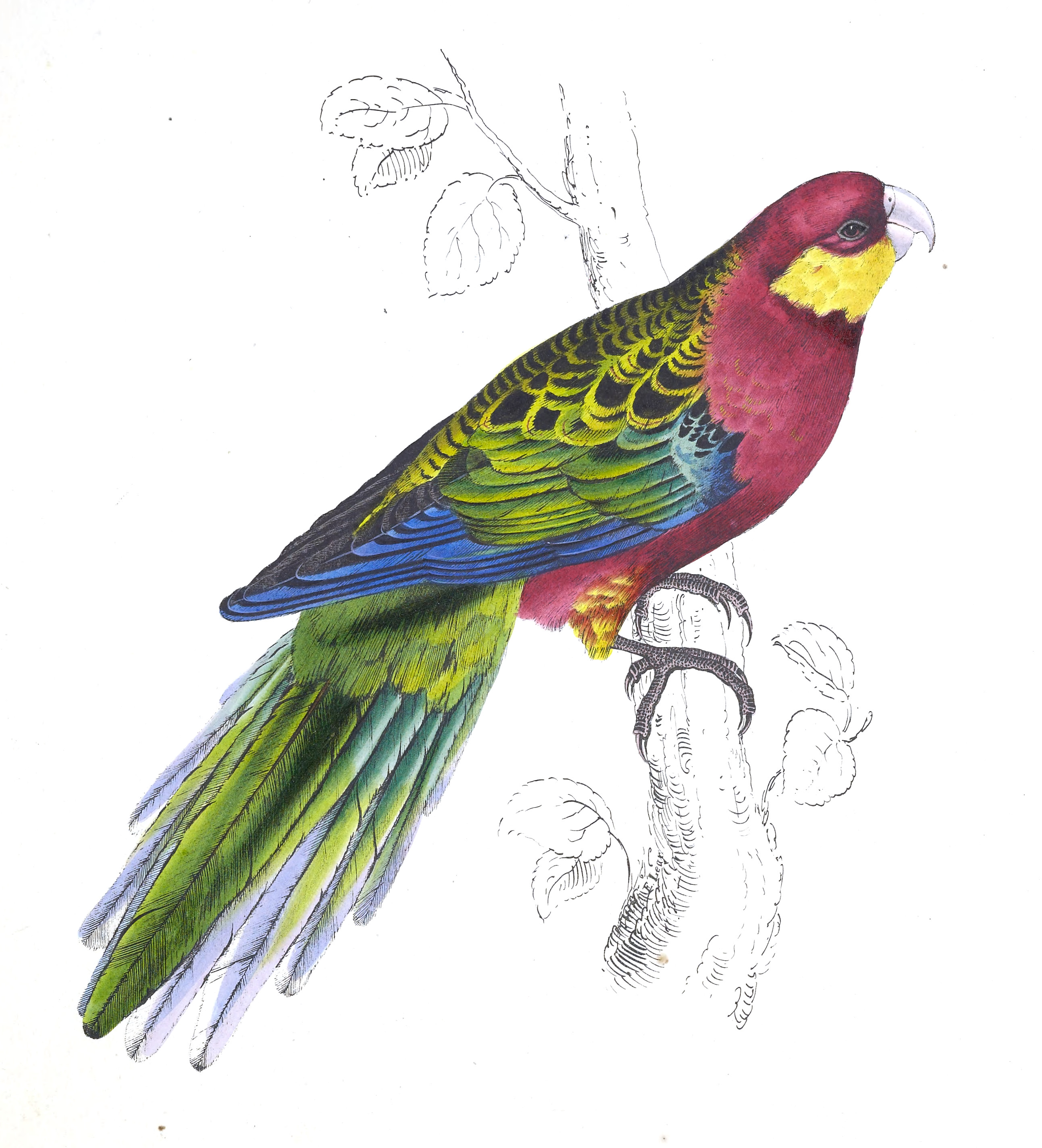 Crude image test for reuse at wikisource, crop, white point at levels, convert jp2 to jpg